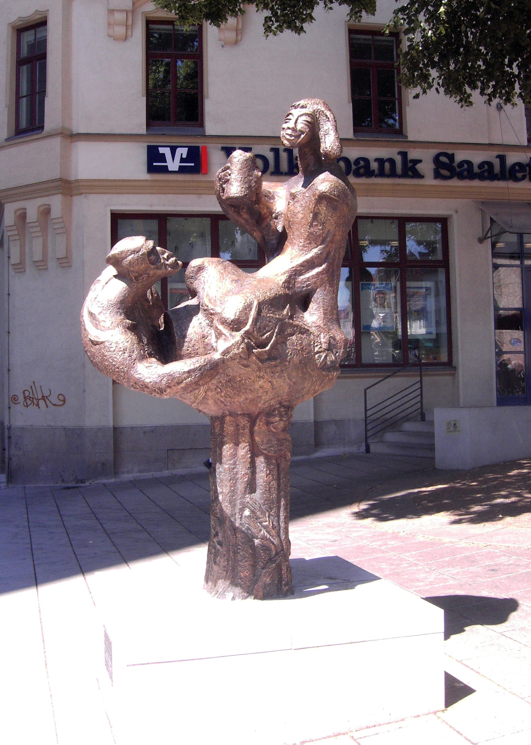 Ergo bibamus in Jena, Denkmal von Freimut Drewello zur Erinnerung an das akademische Brauhaus und das akademische Brau- und Schankrecht in Jena, Bronze 2005, Kunstharz 1986, benant nach dem gleichnamigen Studentenlied